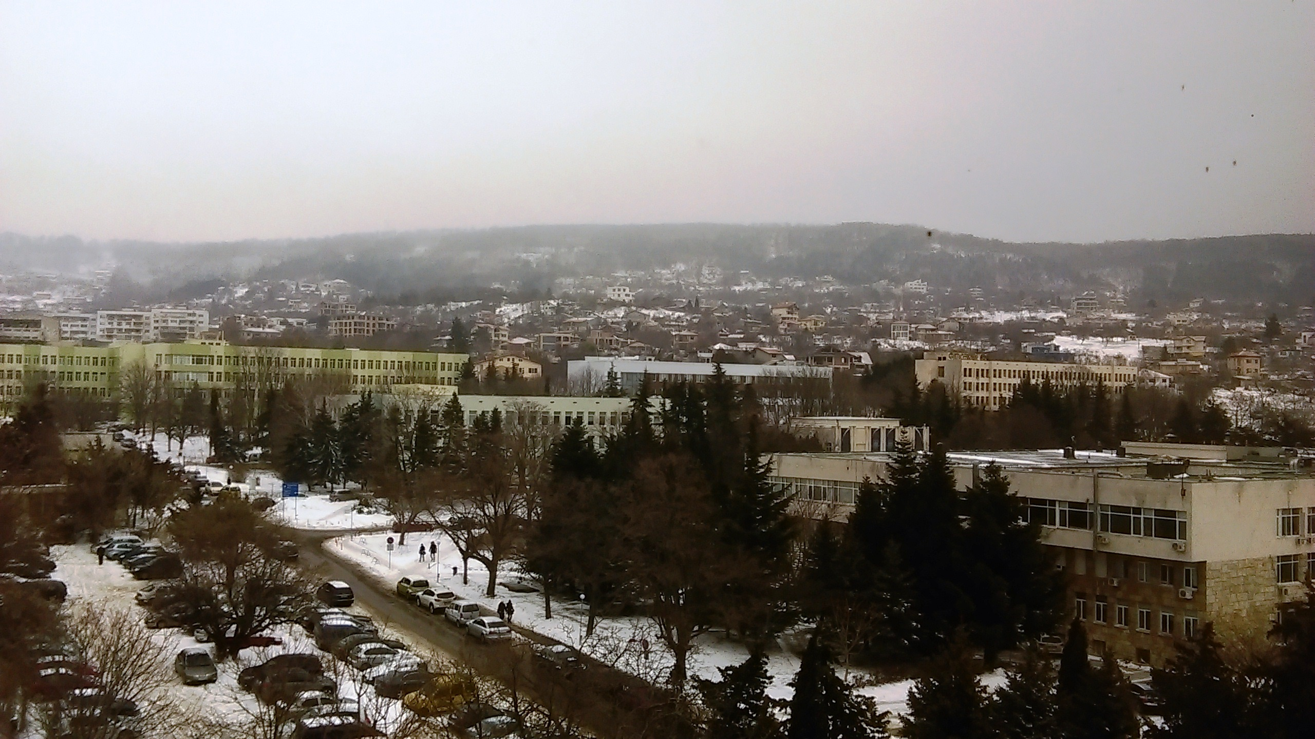 Winter depiction of Franga plateau as seen from Varna